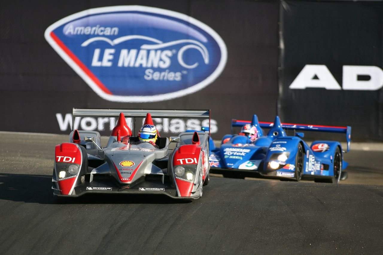 The #2 Audi R10 leading the Zytek at the 2007 Monterey Sports Car Championships